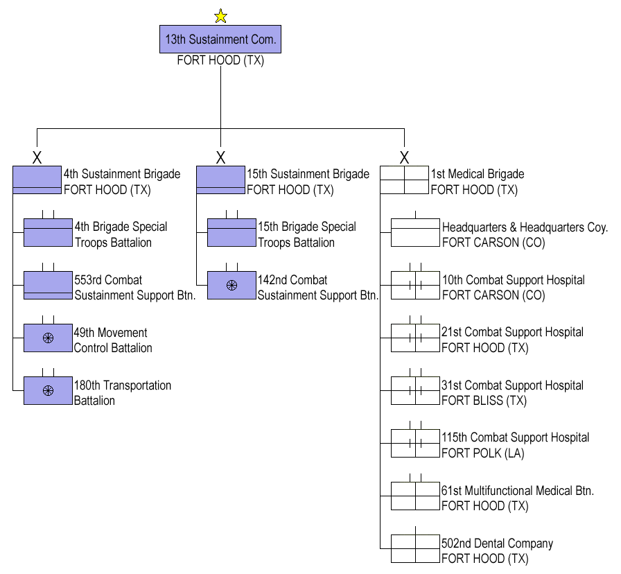 US Army 13th Sustainment Command (Expeditionary) Structure